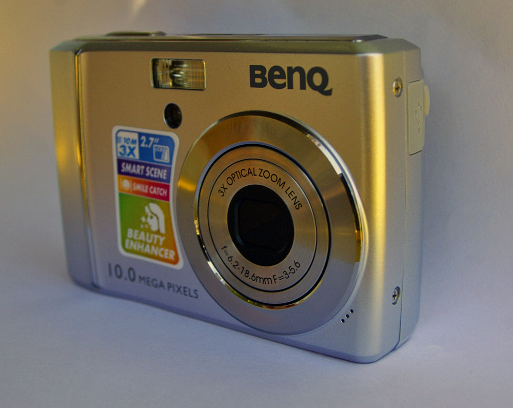 BenQ DC C1030 Eco.